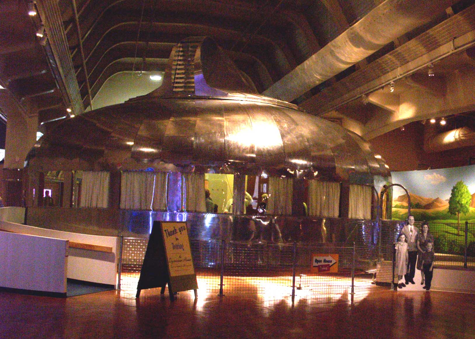 Dymaxion House as installed at the Henry Ford Museum photo by rmhermen